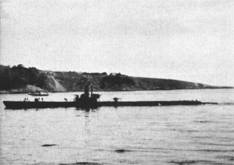 The Chilean submarine Thompson (SS-22) underway during exercise UNITAS III, in 1962. Thompson had been commissioned in the United States Navy as USS Springer (SS-414) from 1944 to 1947. She was reactivated in 1960 and transferred to Chile in 1961 where she served until 1972.